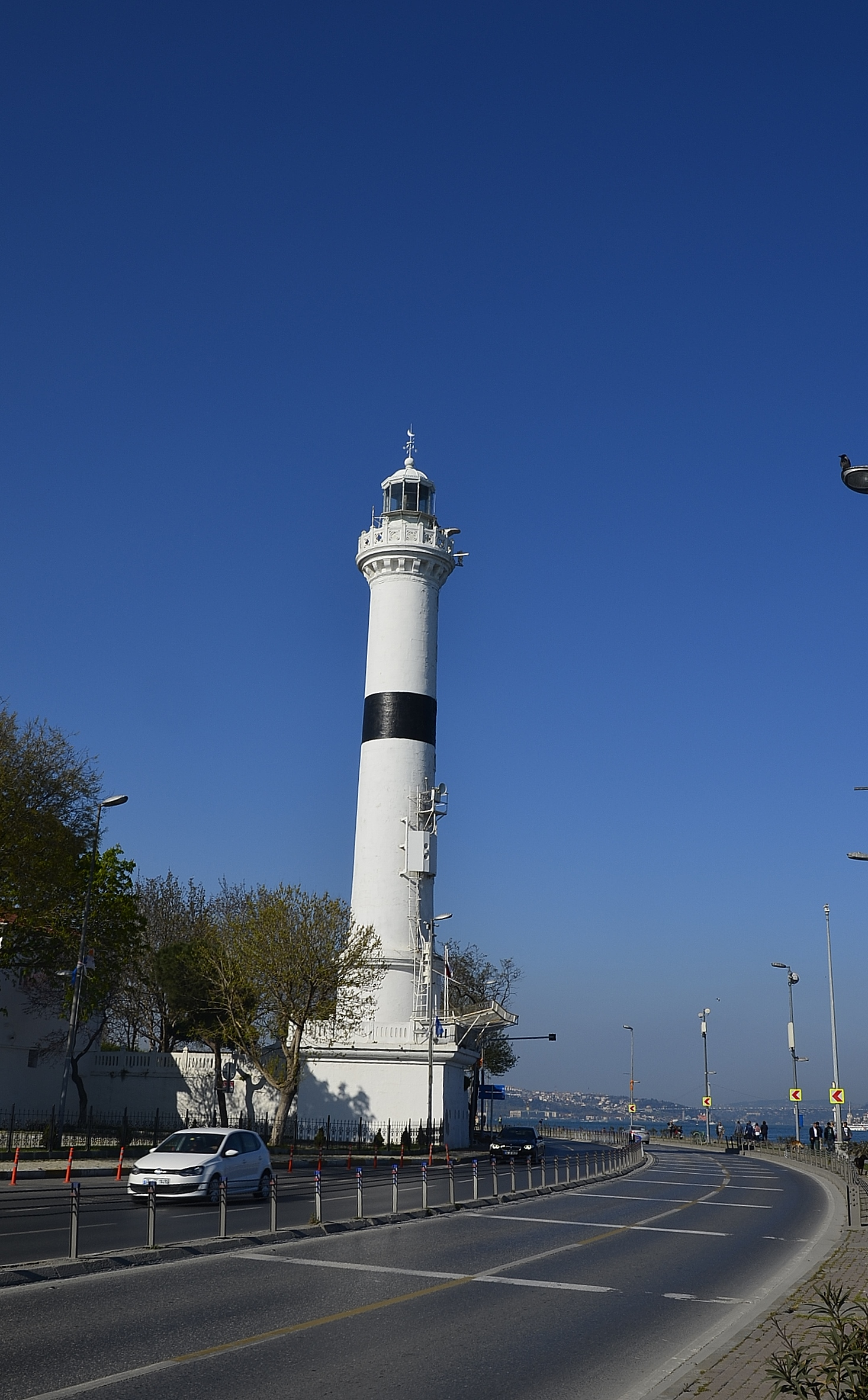 Ahırkapı Lighthouse at the southern entrance of Bosphorus in Istanbul